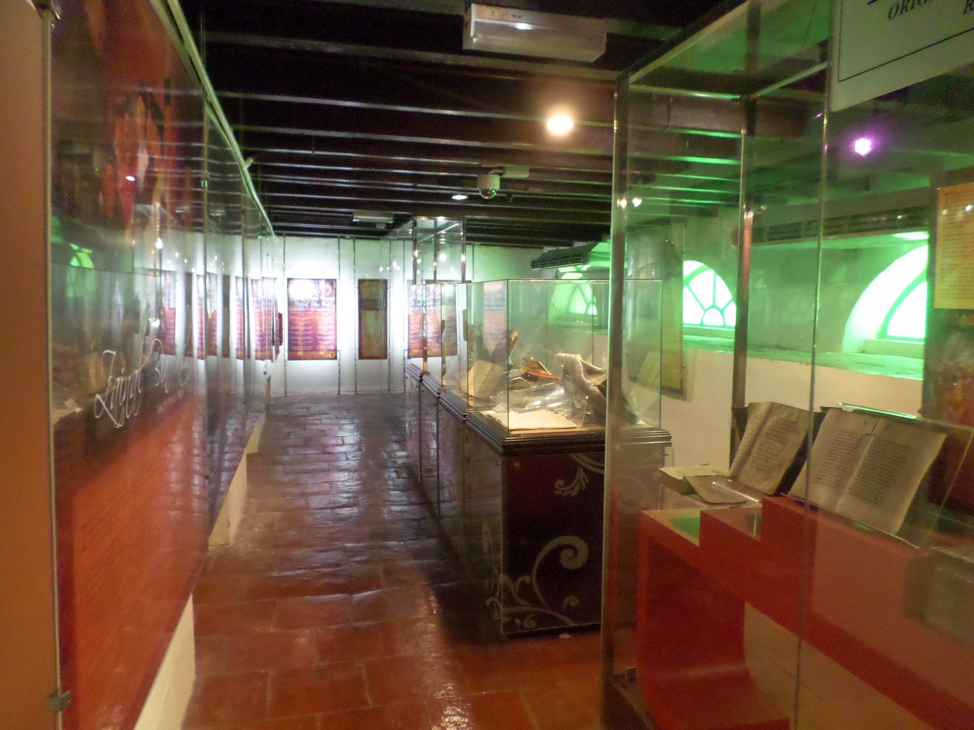 Malacca Literature Museum, Central Malacca, Malacca, MalaysiaBahasa Melayu: Muzium Sastera Melaka, Melaka Tengah, Melaka, Malaysia